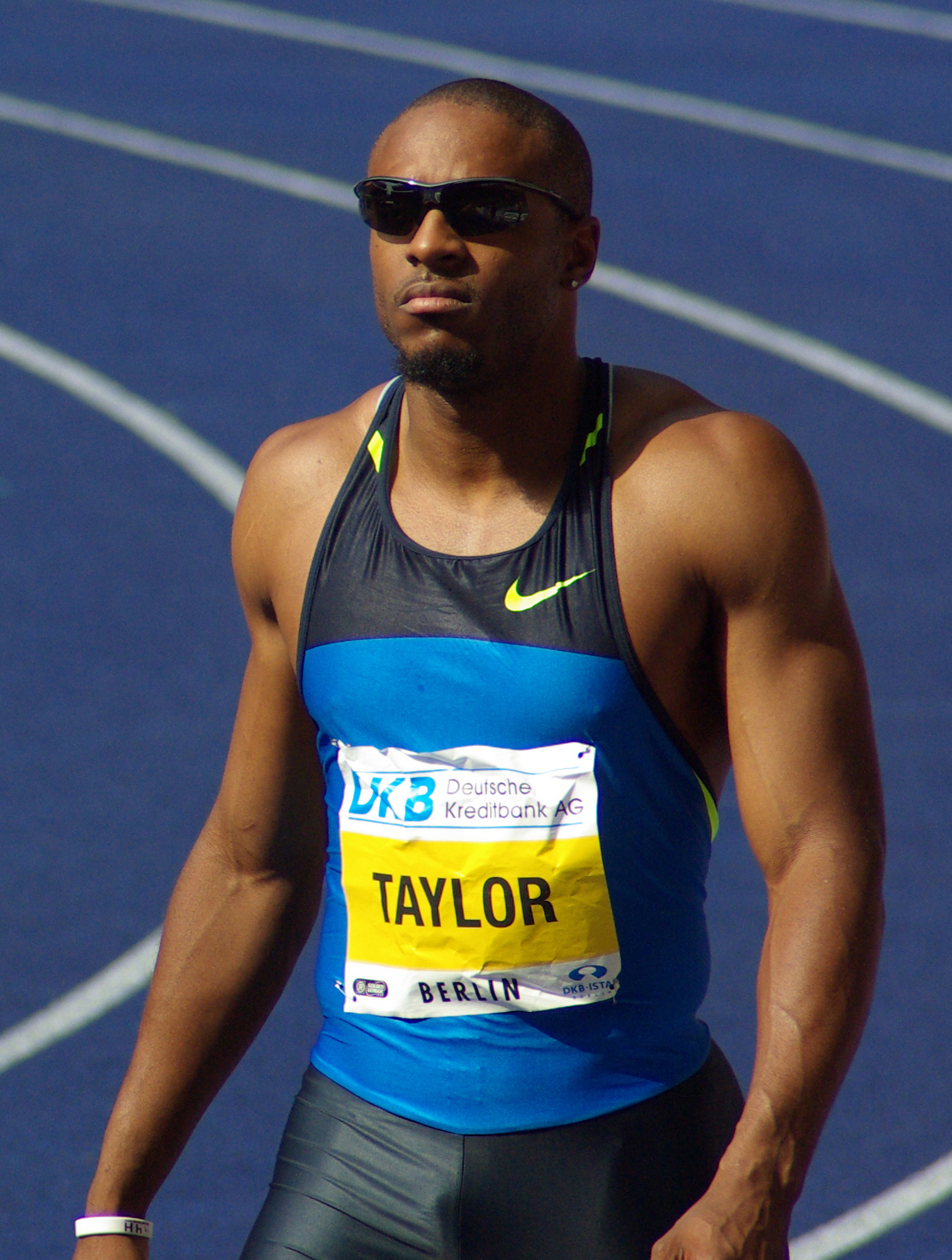 Angelo Taylor "Golden League" Meeting Istaf Berlin (Pool) in 2008